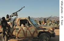 Seized Niger military vehicles on a rebel base in the Air Mountains